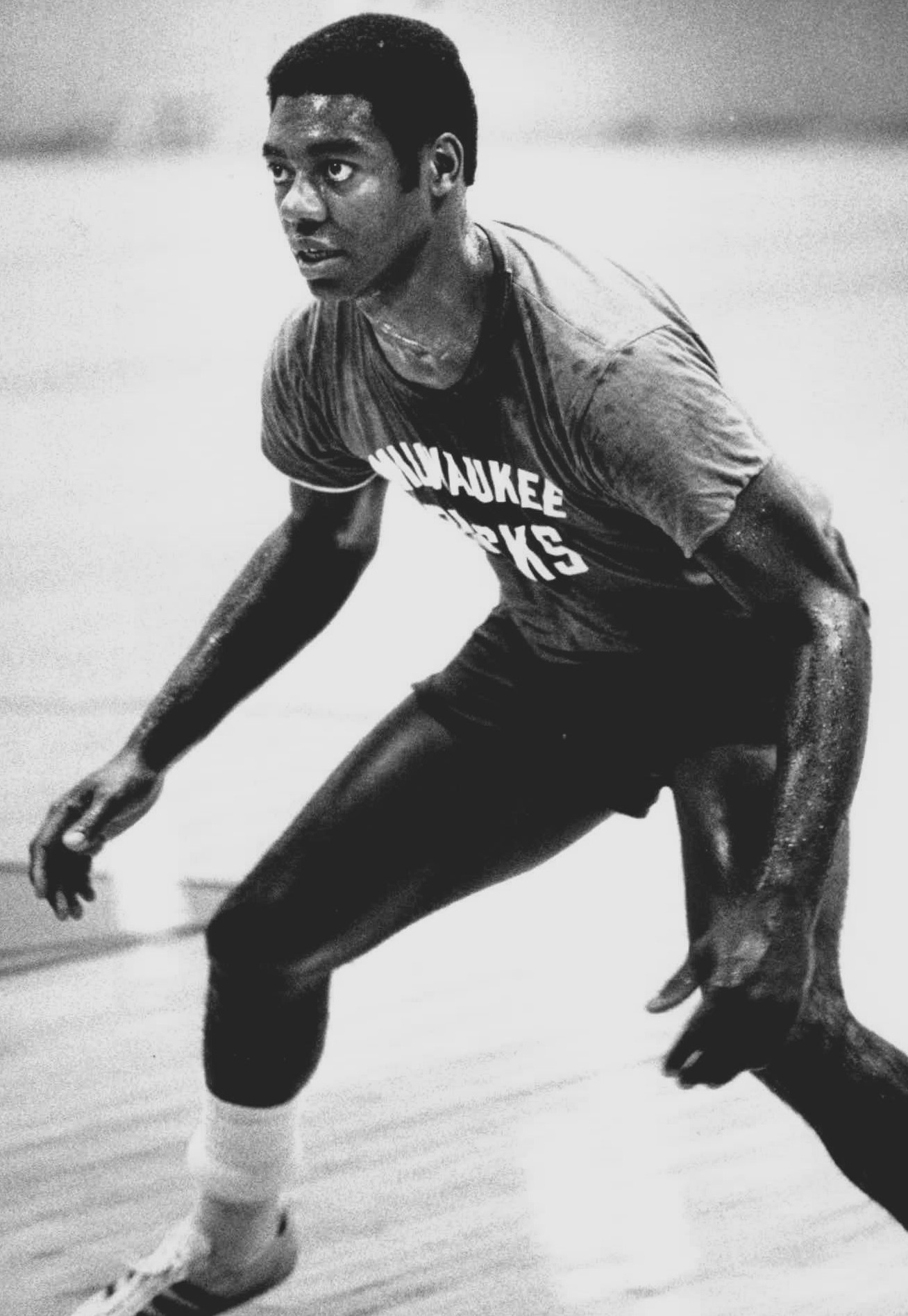 Professional basketball player Oscar Robertson